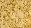 Nutritional yeast has a nutty, cheesy flavor which makes it popular as an ingredient in cheese substitutes. It is often used by vegans in place of Parmesan cheese. Another popular use is as a topping for popcorn. It can also be used in mashed and fried potatoes, as well as in scrambled eggs. It comes in the form of flakes, or as a yellow powder similar in texture to cornmeal, and can be found in the bulk aisle of most natural food stores. In Australia, it is sometimes sold as "savory yeast flakes". Though "nutritional yeast" usually refers to commercial product.